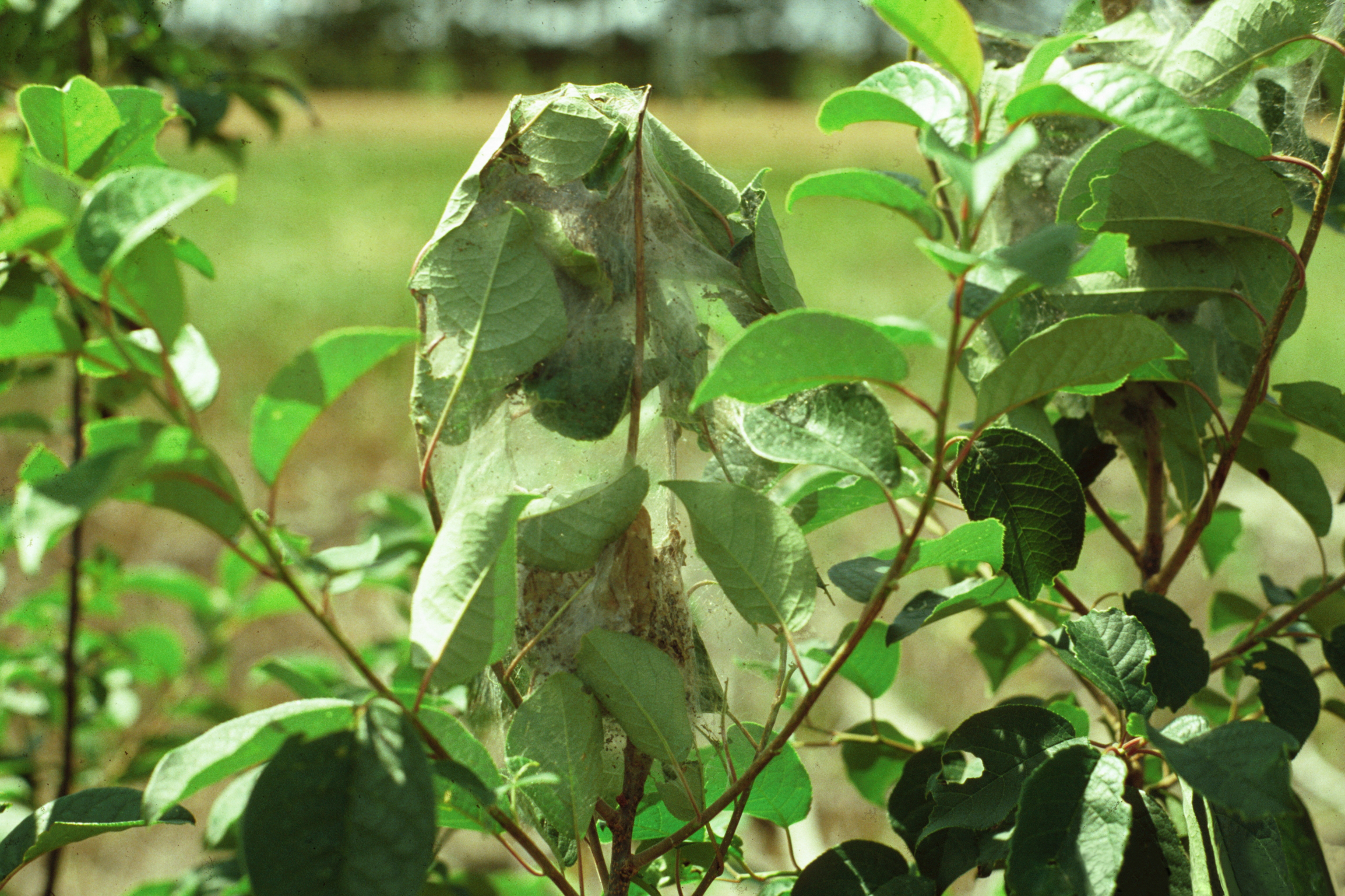 Archips cerasivorana